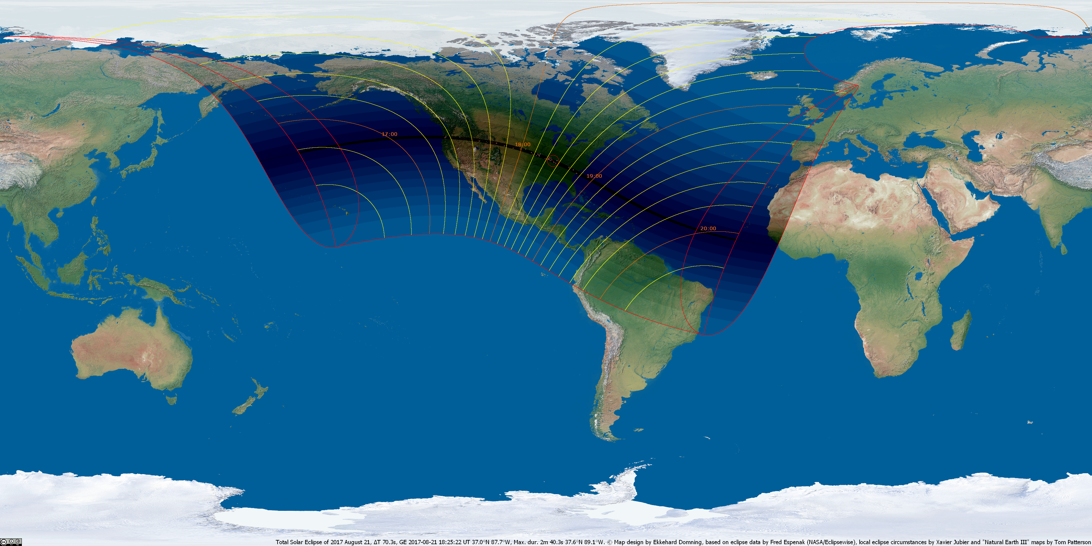 Global map of the Solar eclipse of August 21, 2017. Scale 1° = 10px